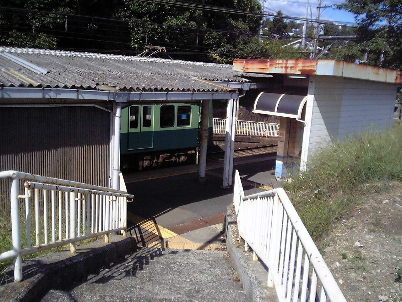 Keihan Ano Station